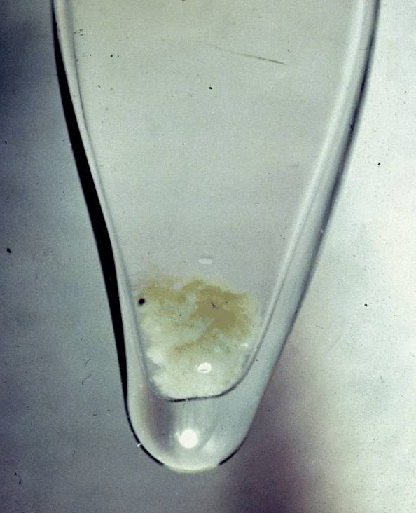 Twenty micrograms of pure plutonium hydroxide in capillary tube, September 1942